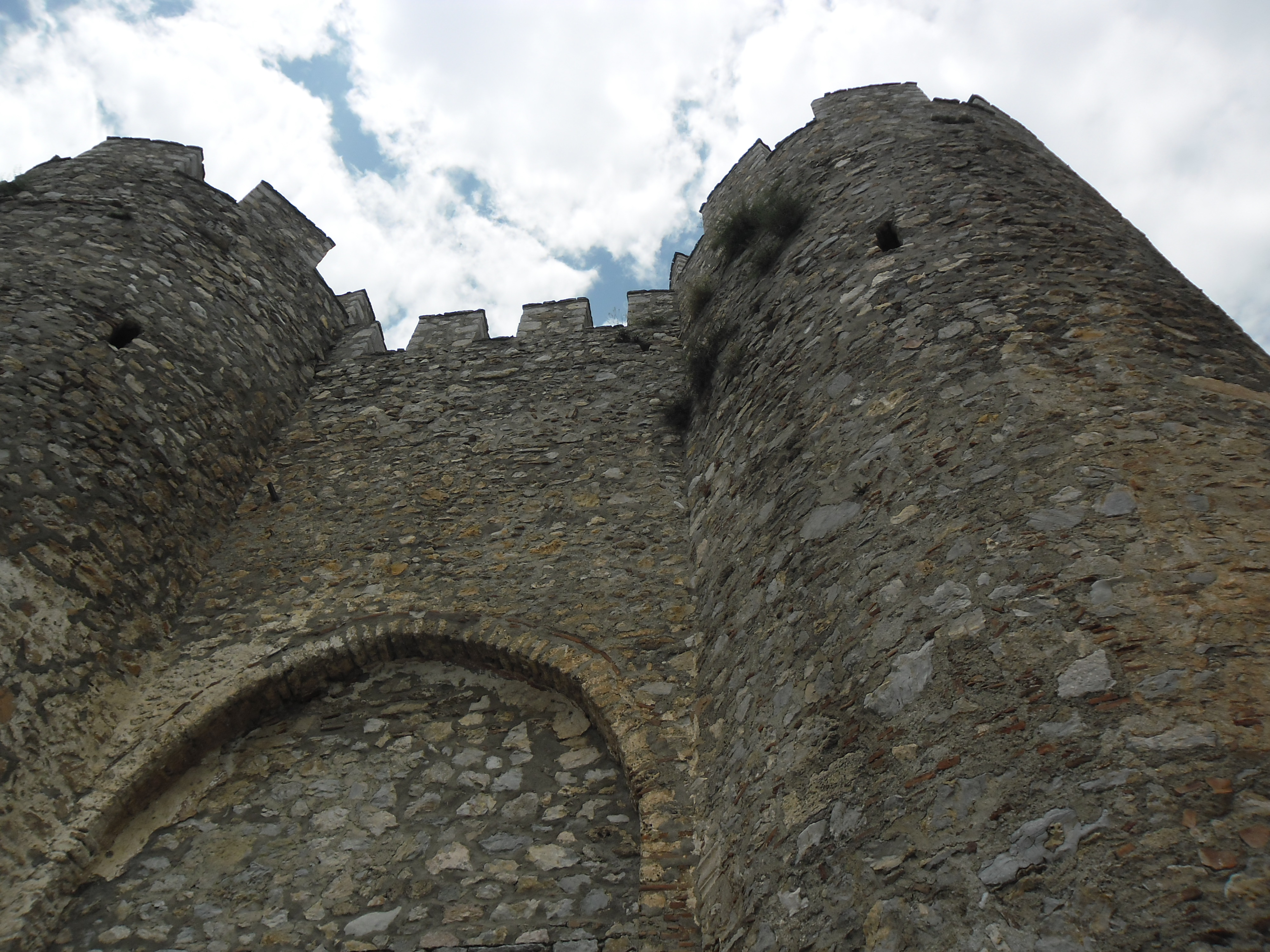 Poort van het fort